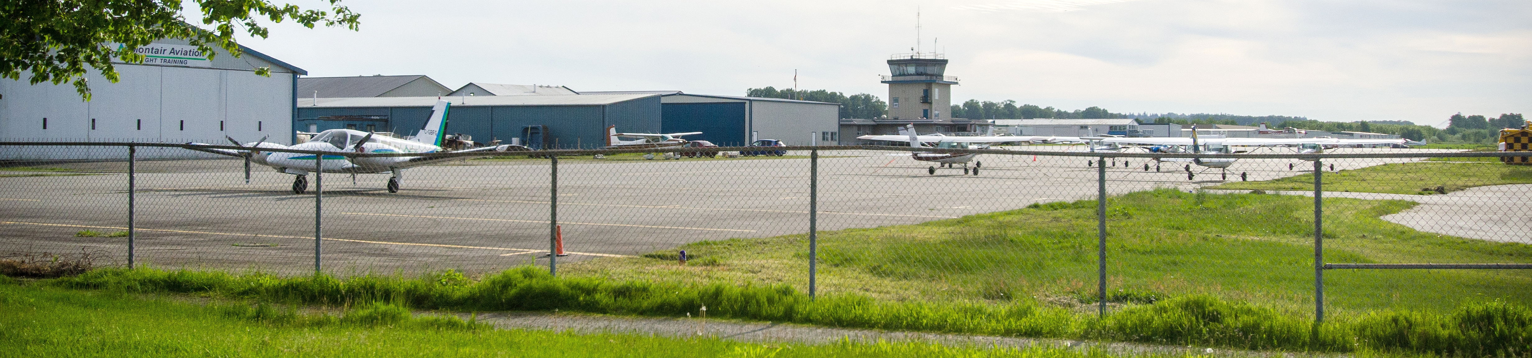 Pitt Meadows Airport.